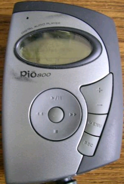 Description-Rio800 Digital audio player,Date-2006.7.25,Author-Photo by Conti27